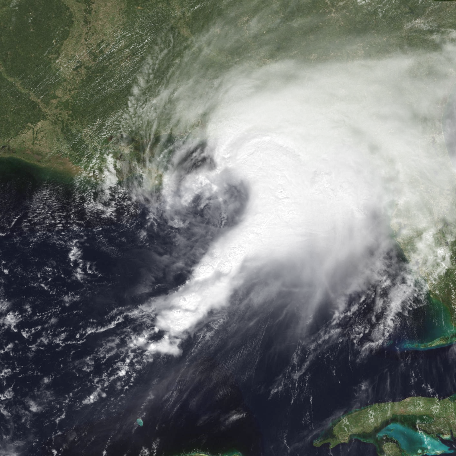 Hurricane Earl near peak intensity off the coast of Florida on September 2, 1998